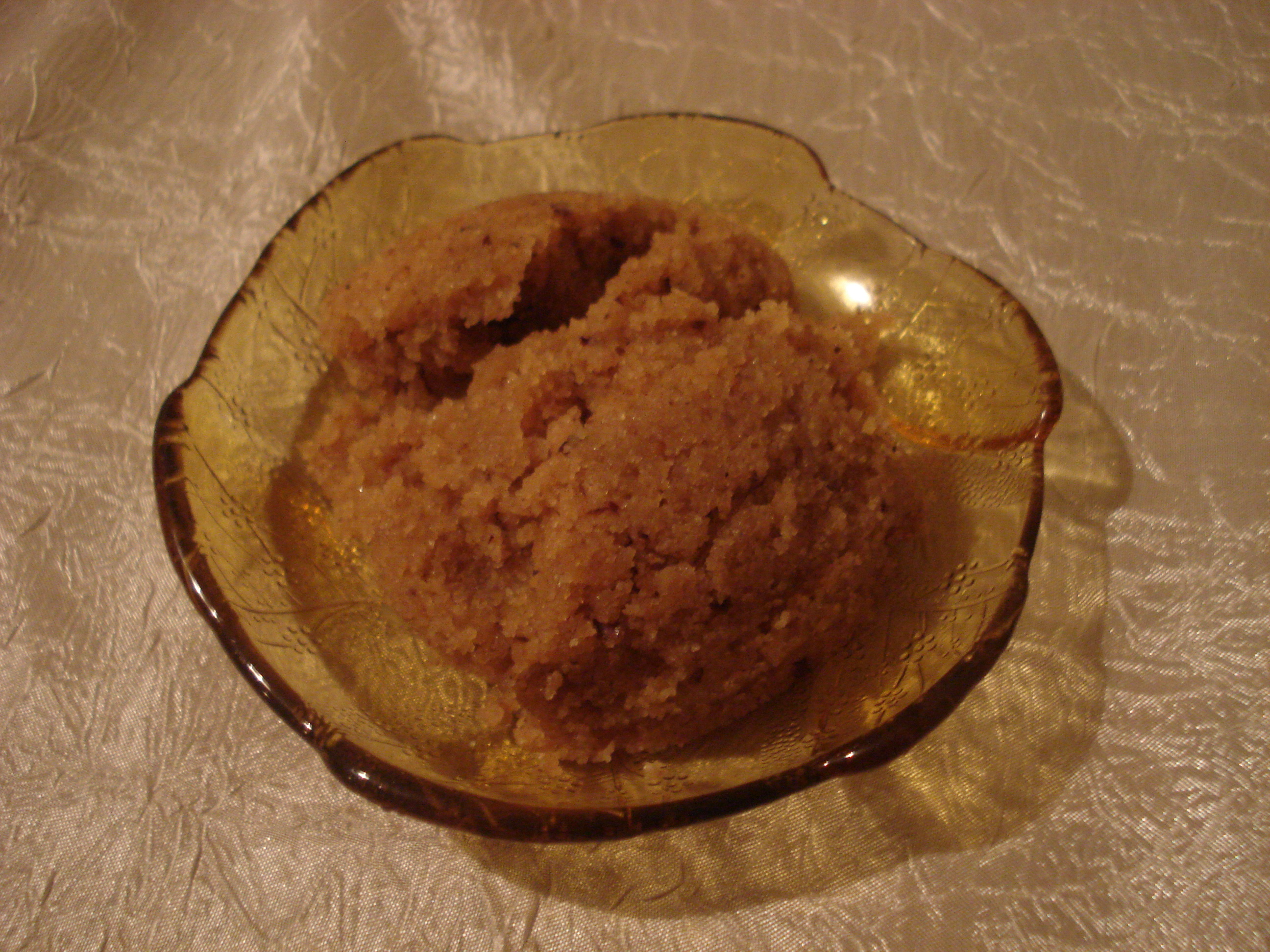 İrmik helvası, a kind of halva from Turkish desserts cuisine